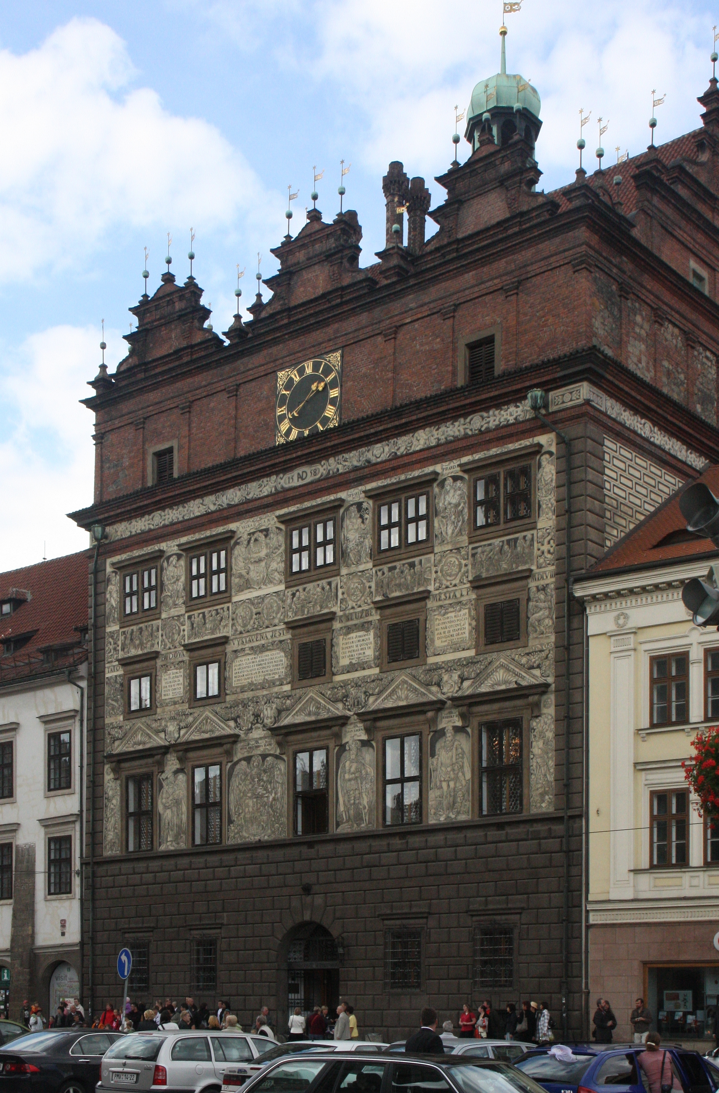 Renaissance town hall, Plzeň